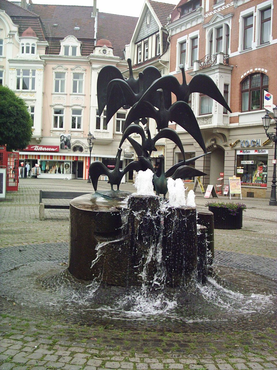 Gänsebrunnen in town of Herford, District of Herford, North Rhine-Westphalia, Germany. check usage